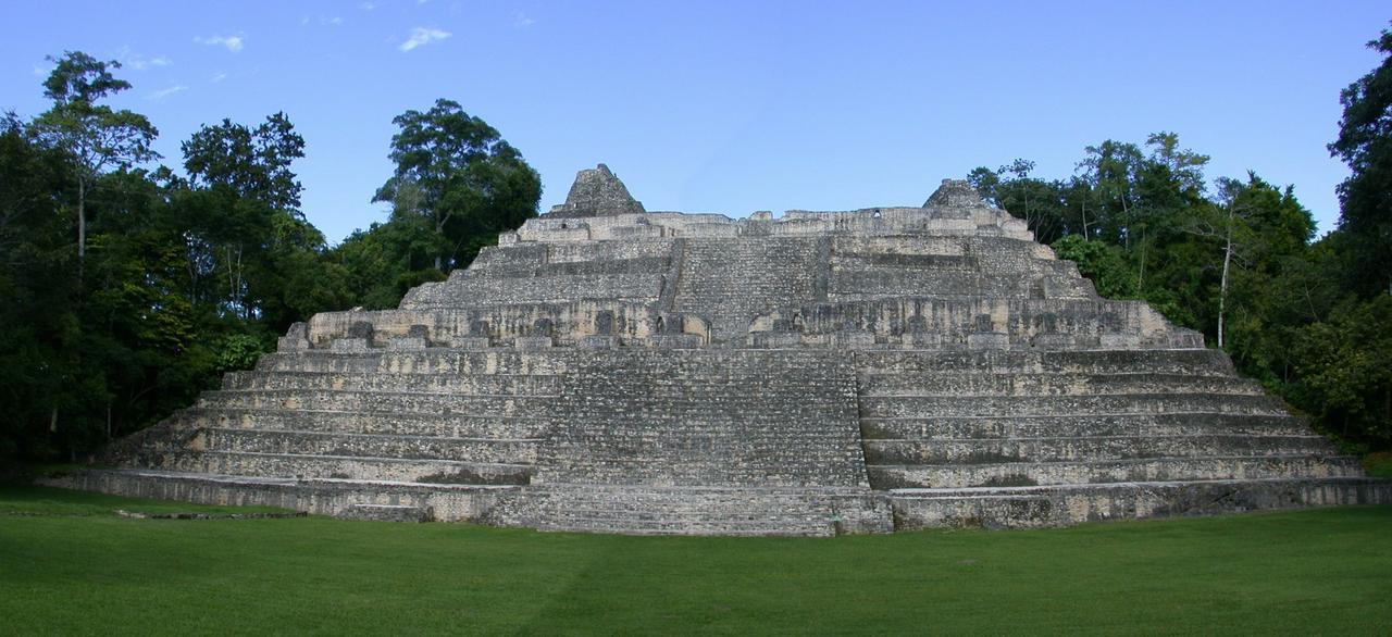 Caana,largest structure at Caracol, Belize, believed to have served many functions ranging from palacial residence to ceremonial. (December 2005)